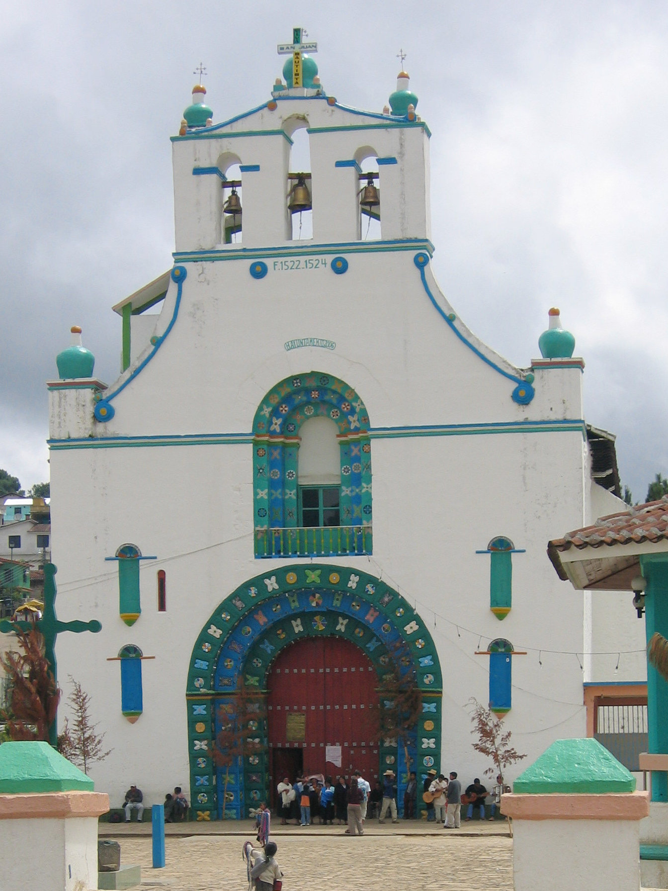 San Juan Chamula (Mexico), church, August 2006